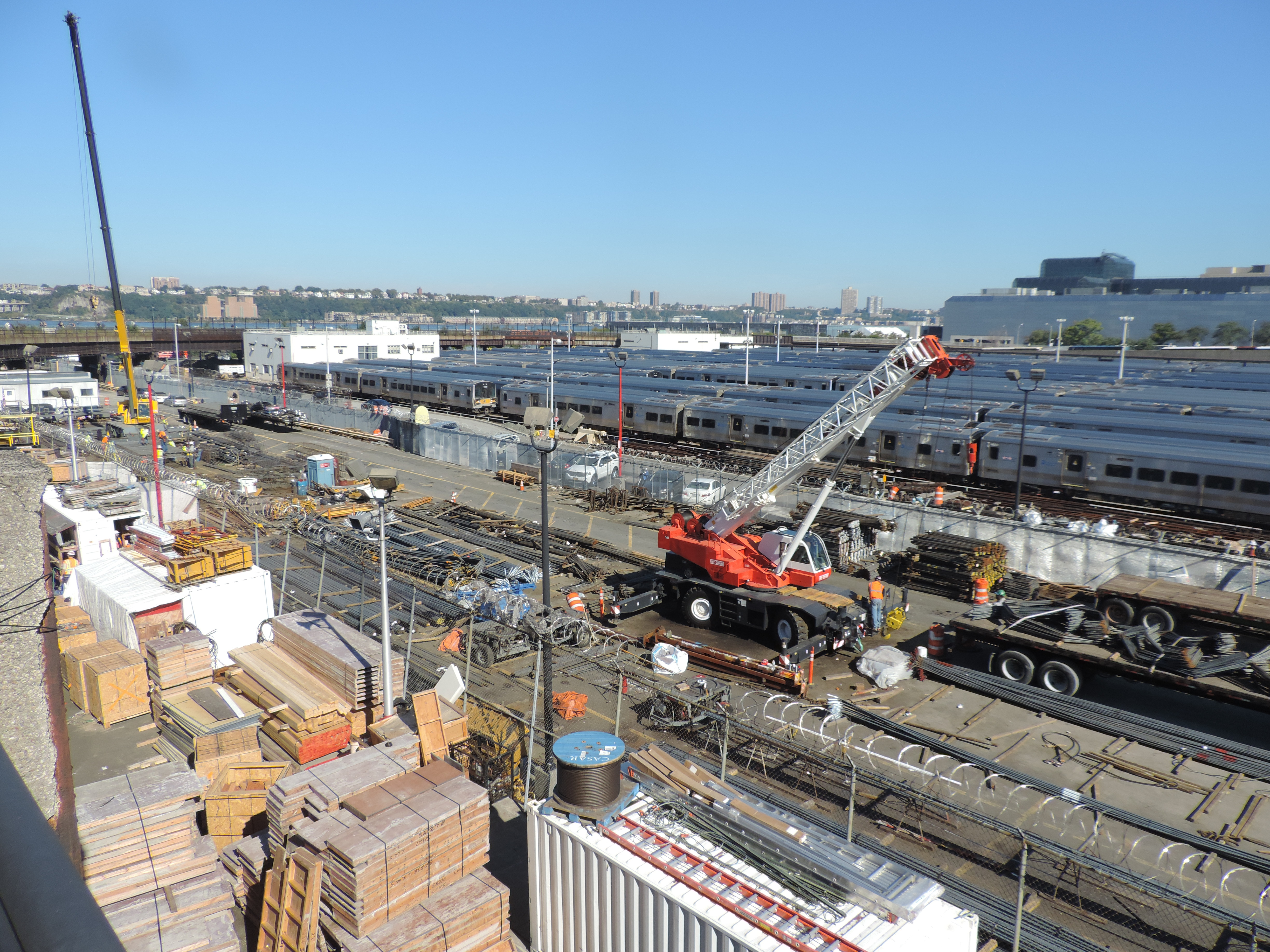 Looking north into equipment and supplies on a sunny morning.